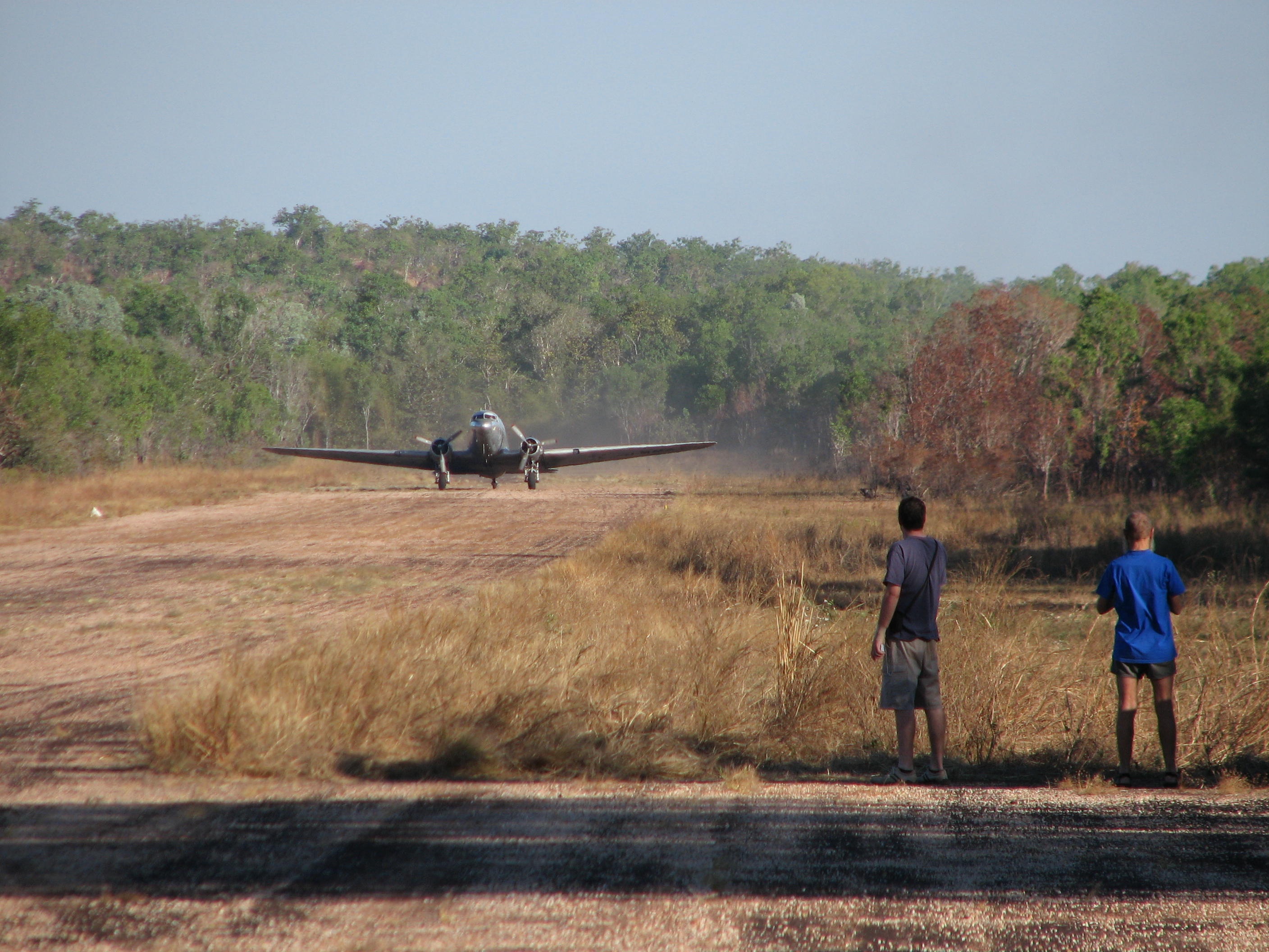 Hardy Aviation, Douglas DC-3 Dakota VH-MMA back tracks at Coomalie Creek airstrip. This airstrip was home to Beaufighters and reconnaissance Mosquitos in WWII.